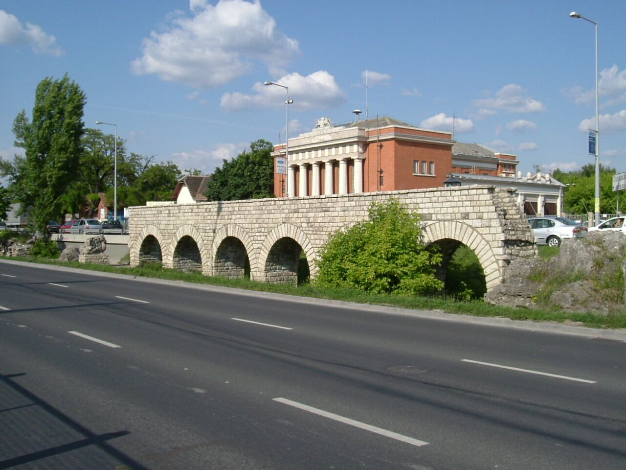 Aquincum, Budapest, Hungary. Reconstructed part of a Roman aqueduct